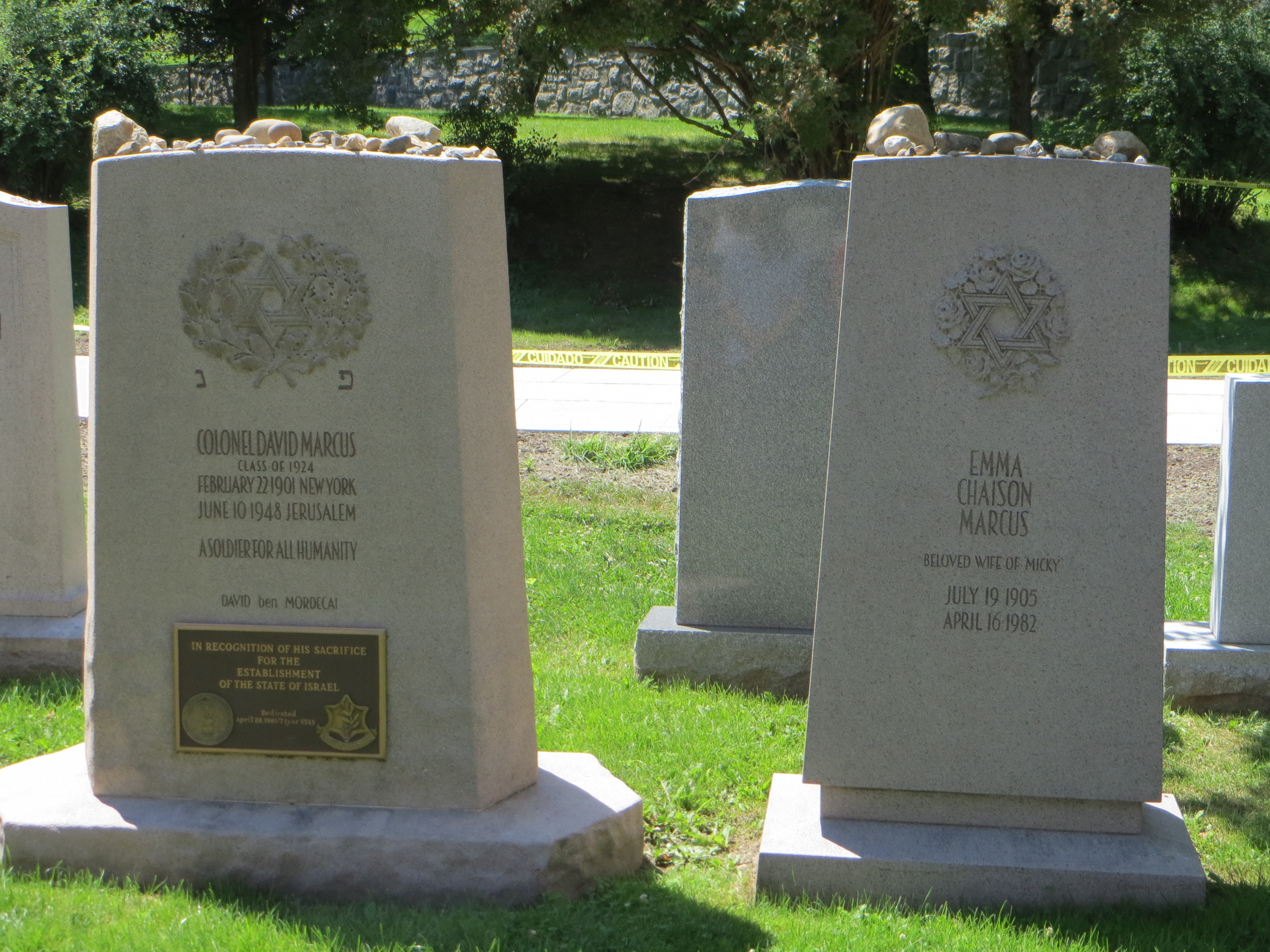 grave of Colonel Daviod Marcus and his wife, West Point Cemetery, August 2013